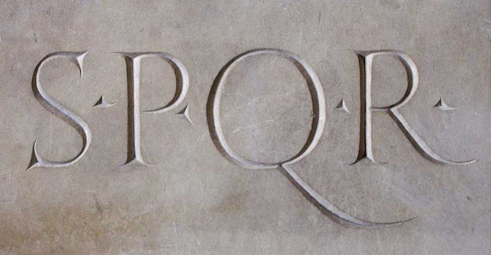 SPQR. Design: Philippe Remacle.